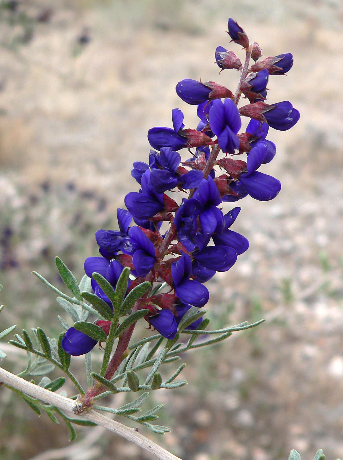 Psorothamnus fremontii on the south side of Webb Hill in the northeastern Mojave Desert, St. George, Utah.